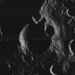 Nobel crater, on the moon, while at the lunar termnator.